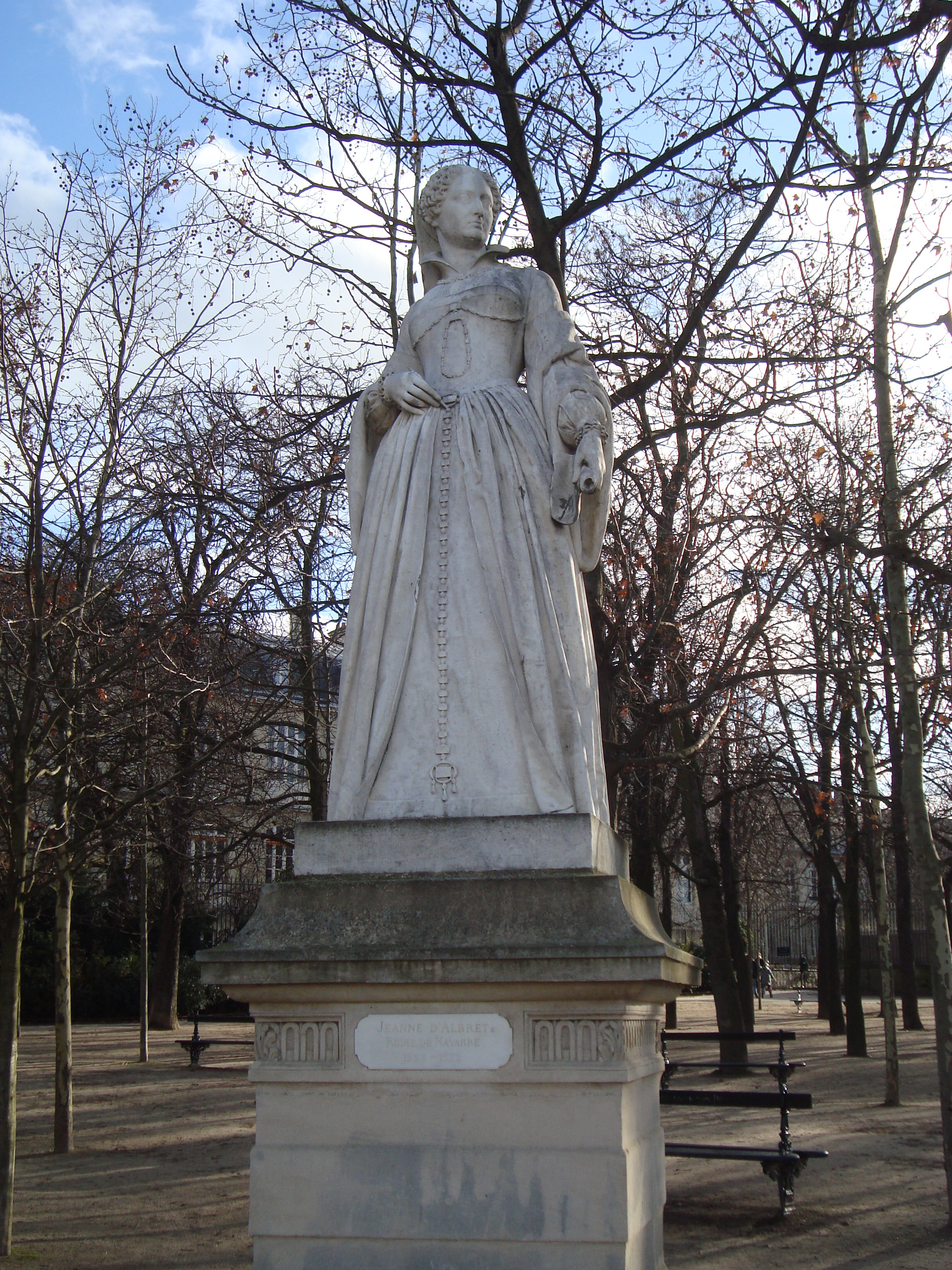 Statue of Jeanne d'Albret in the jardin du Luxembourg, Paris